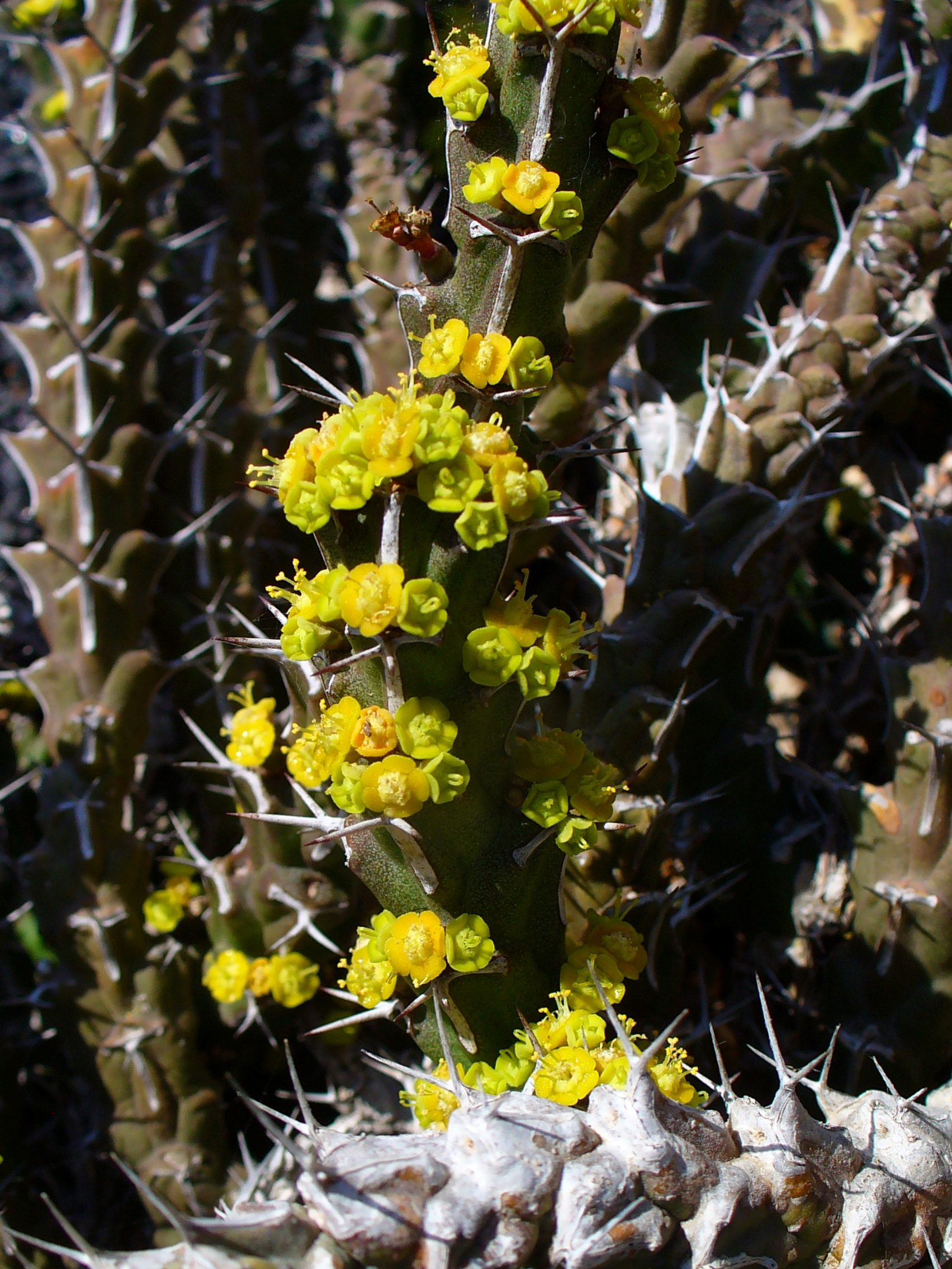 Cyathia; Jardin de Cactus, Guatiza, Lanzarote, Canary Islands, Spain.